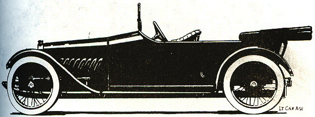 1915 E.I.M. Touring